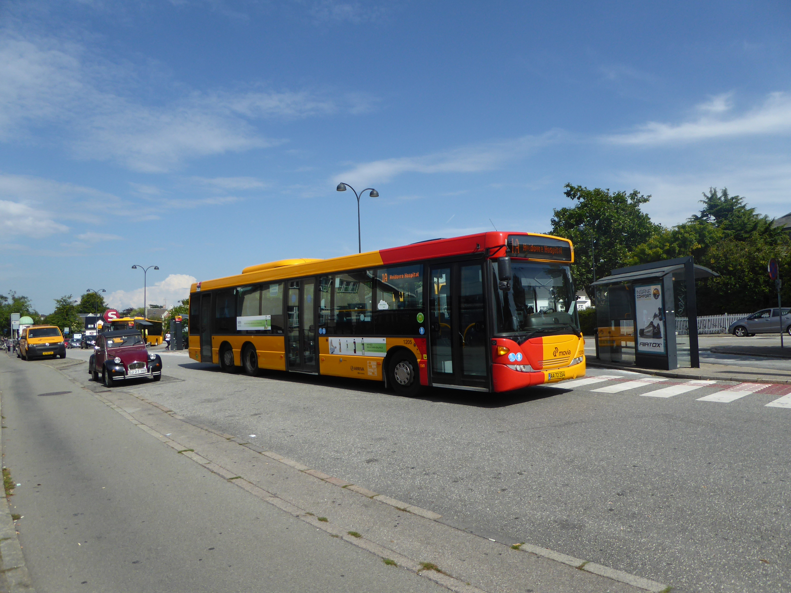 Movia bus line 1A at Hellerup Station in Copenhagen.